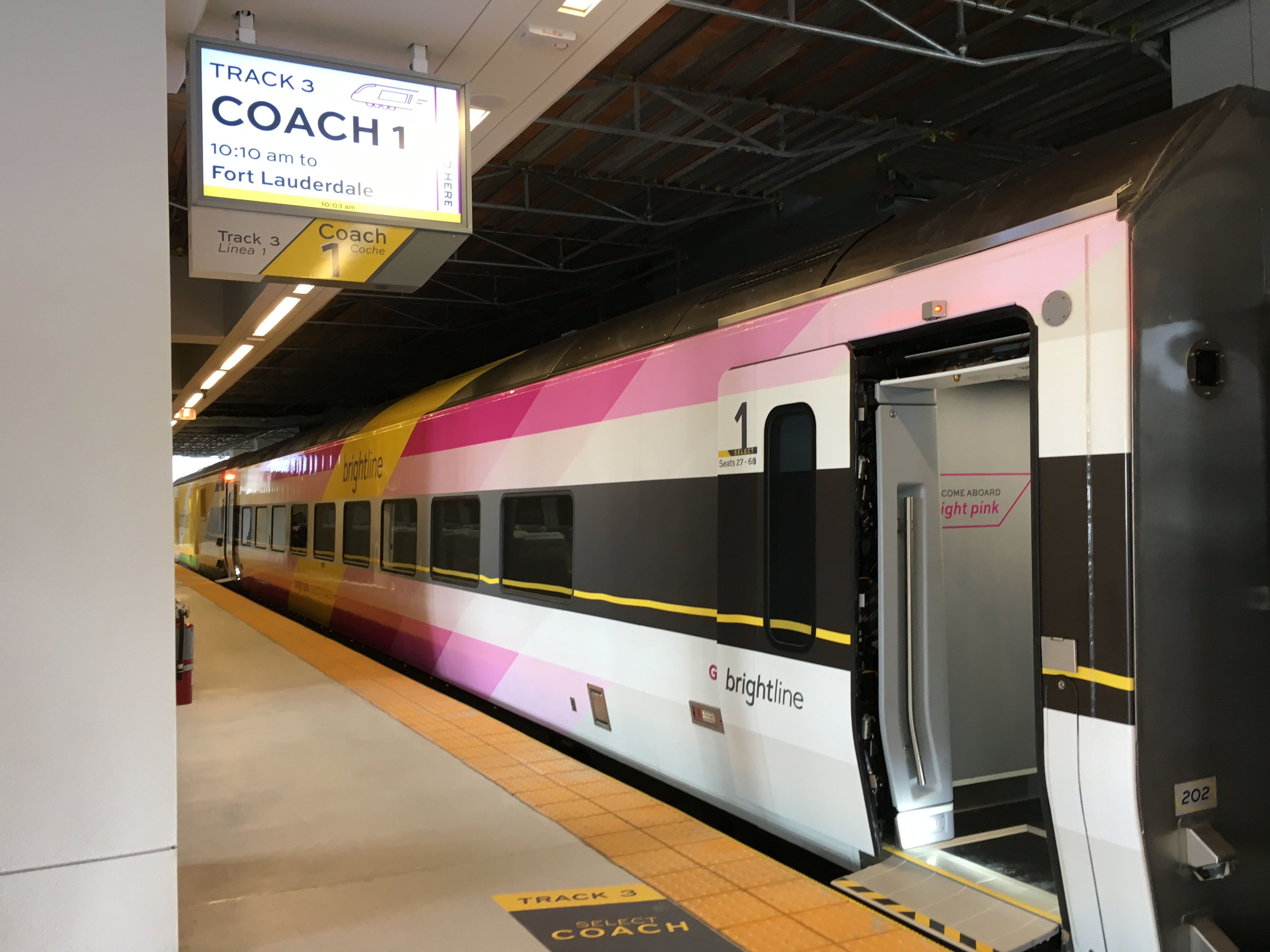 Brightline